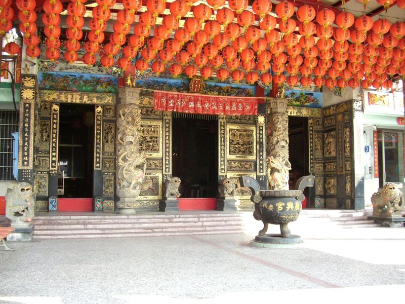 Bazhangli Guanĝing Temple, Xitun District, Taichung.